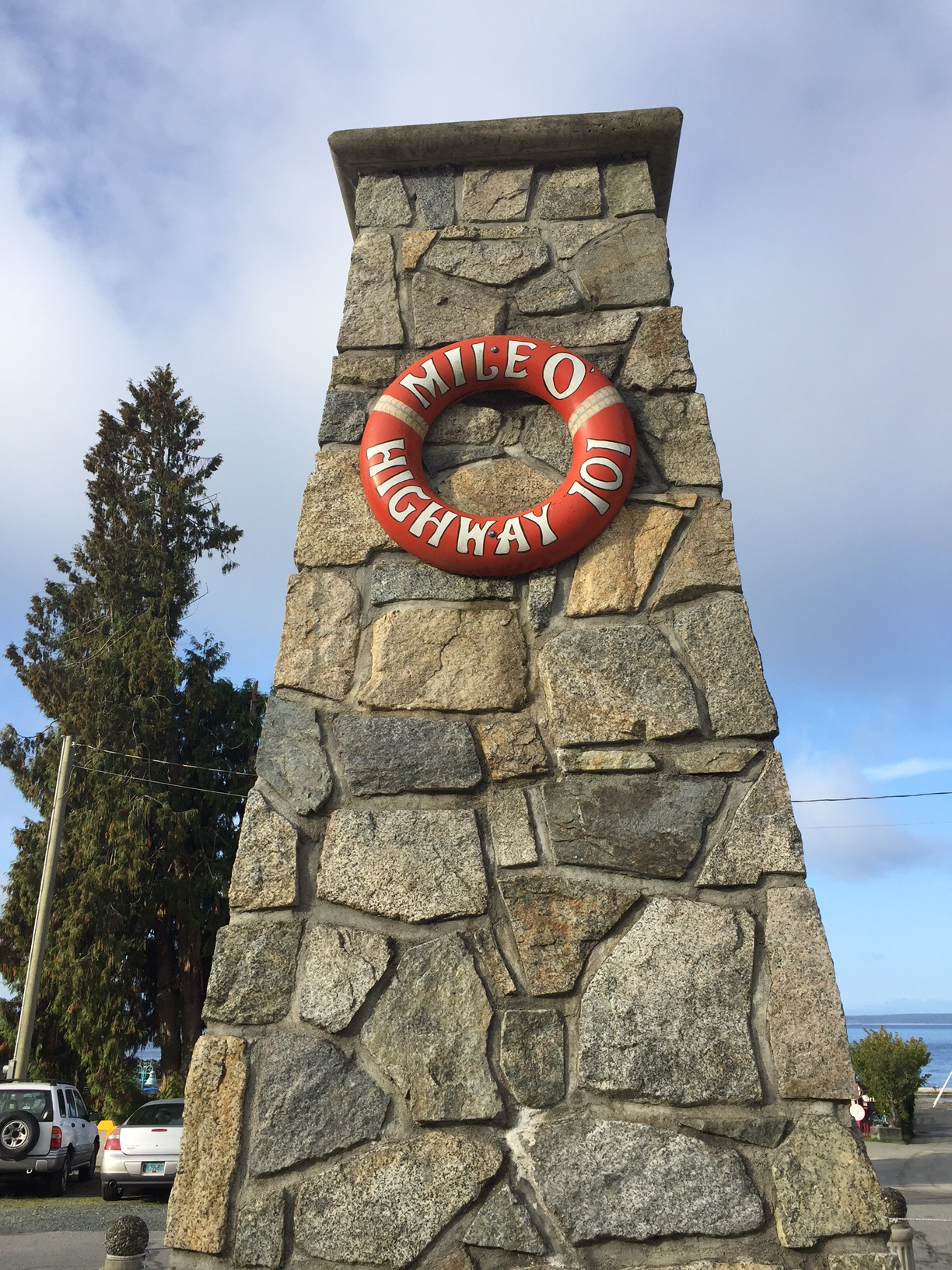 Highway 101, Mile 0 Marker, Lund BC